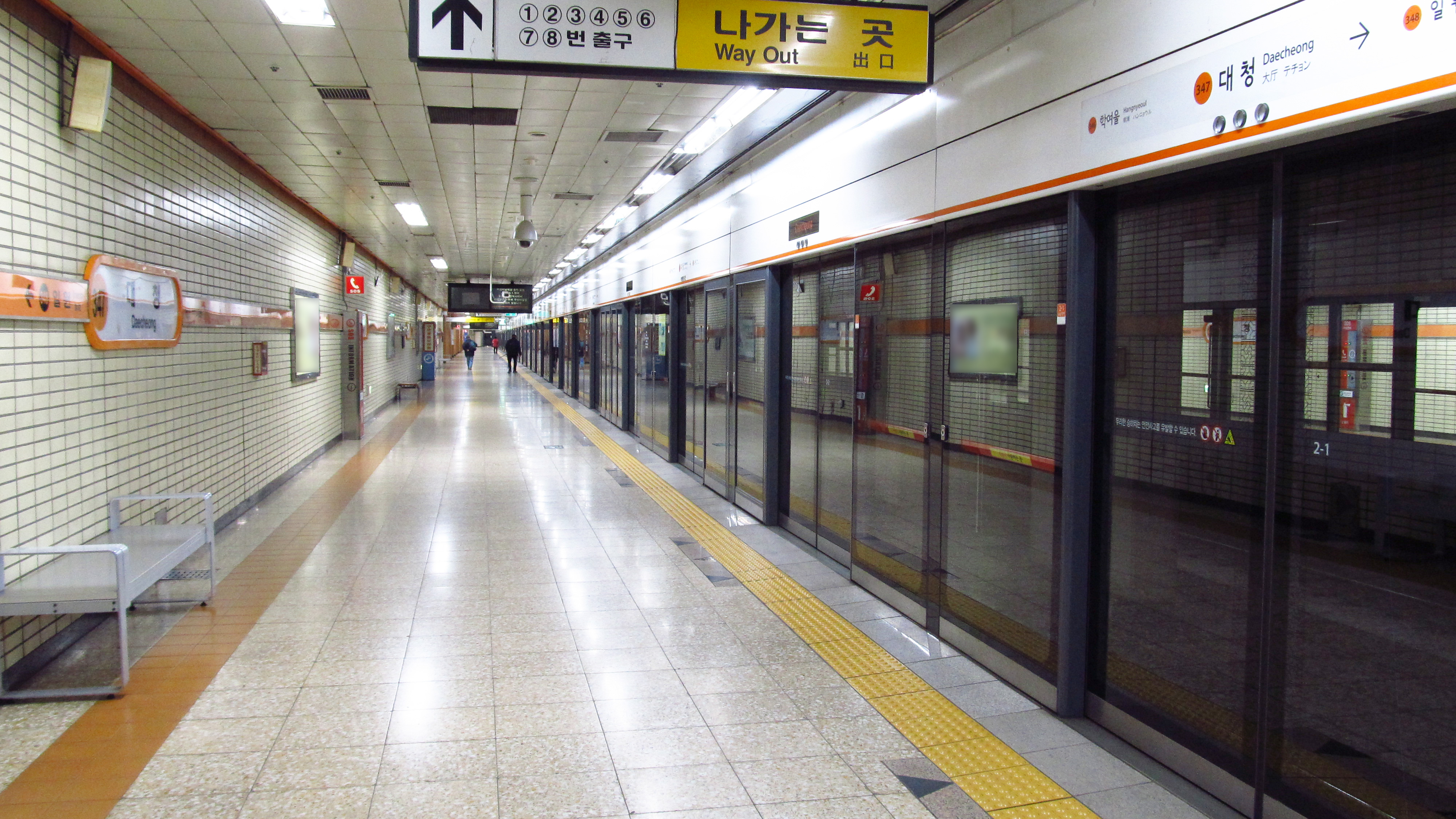 The platform at Daecheong Station on Seoul Subway Line 3 in Gangnam-gu, Seoul, Republic of Korea(South Korea)